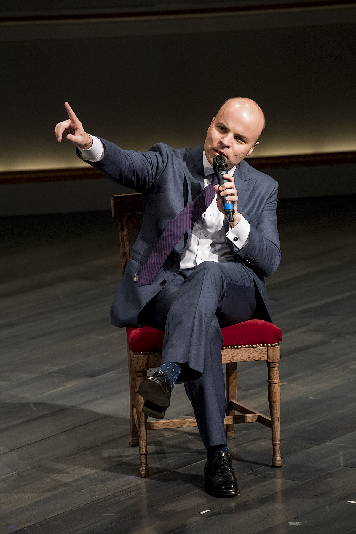 "OSLO" playwright J.T. Rogers in conversation after a special performance of "OSLO" hosted by IPI. Photo credit: International Peace Institute.